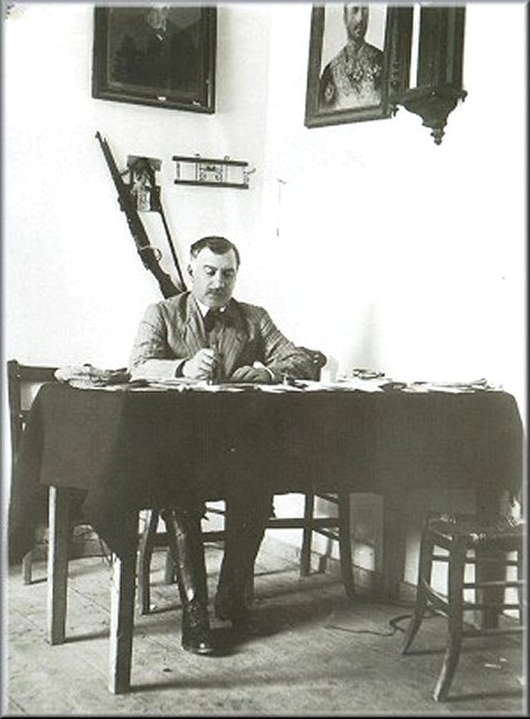 Themistoklis Sophoulis 1912 in the headquarter at Samos island